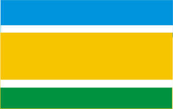 SOL flag